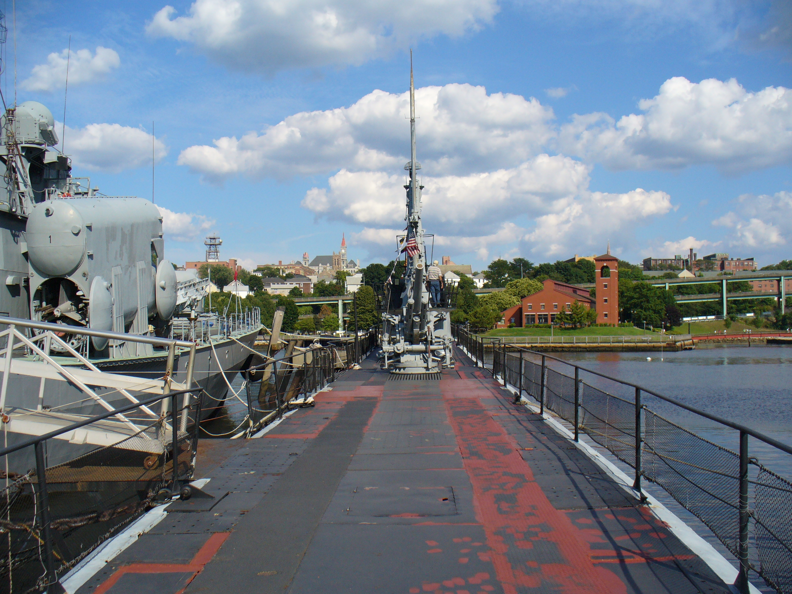 Deck of the USS Lionfish in Battleship Cove, Fall River, MA: Visitors building at Fall River Heritage State Park in the background at right